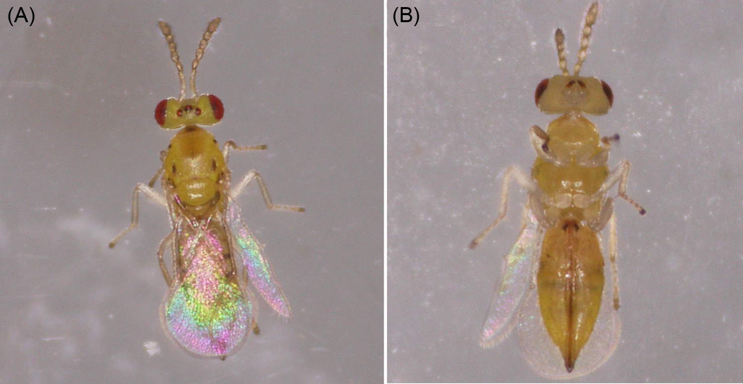 Figure 3 of paper. (A) Dorsal view of Quadrastichus mendeli female; (B) ventral view of Quadrastichus mendeli female.